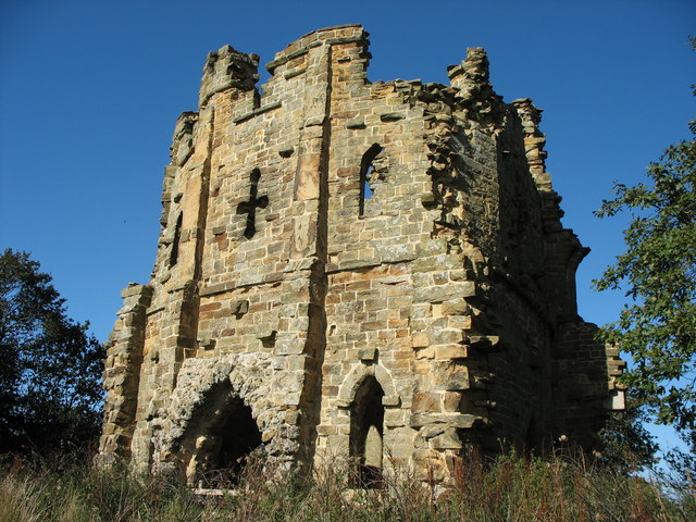 Mowbray Castle, near to Grewelthorpe, North Yorkshire, Great Britain. Mowbray Castle Folly, one of many Follies in the woods